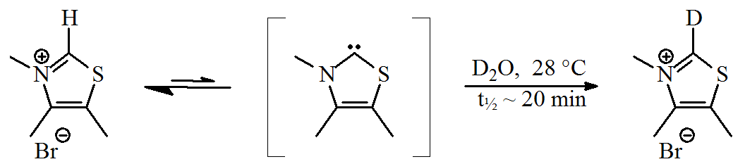 Breslow carbene